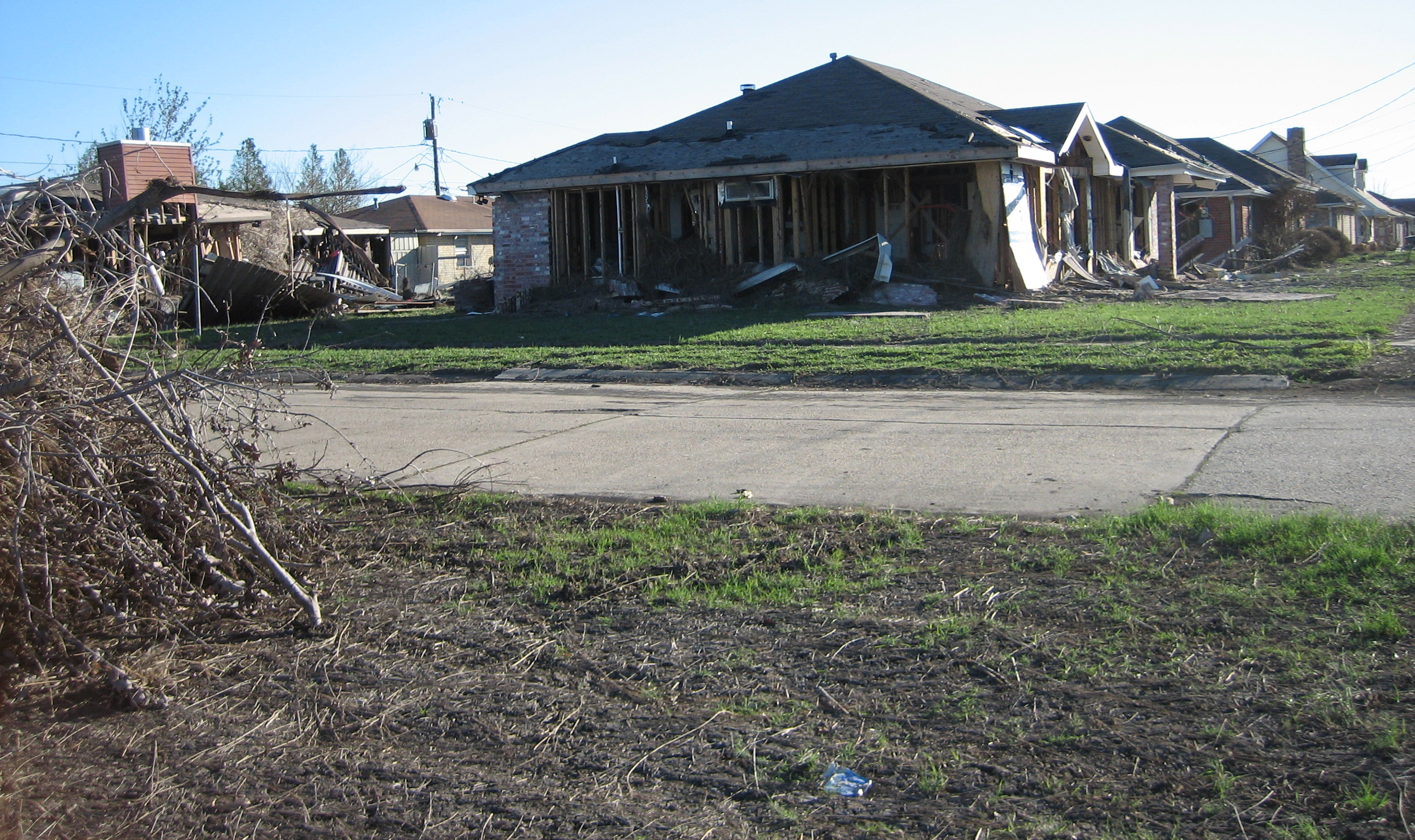 St. Bernard Parish, Louisiana after Hurricane Katrina: Flood devasted residential neighborhood scene.